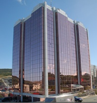 John Cabot Place II in downtown St. John's